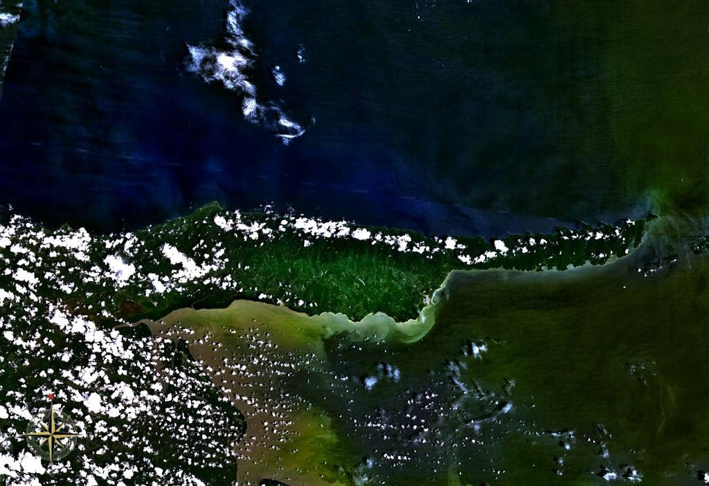 Paria Peninsula in Venezuela. Satellite view.